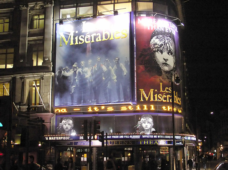 Queens Theatre, 51 Shaftesbury Avenue, London, W1D 6BA. The theatre was showing the musical Les Miserables which began there in March 2004. Taken by Adrian Pingstone in November 2004 and released to the public domain.